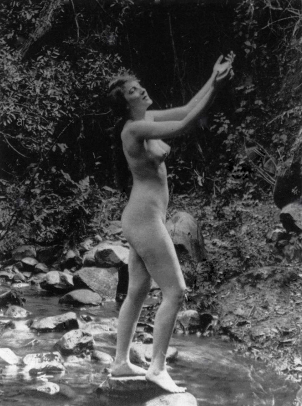 Actress Audrey Munson in the 1916 film "Purity"